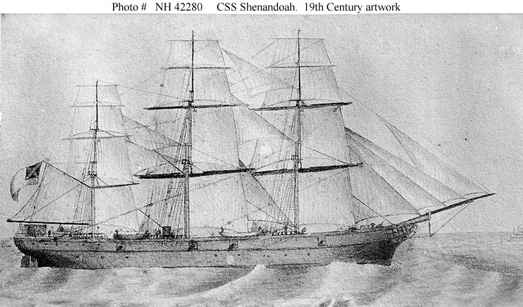 Photo #: NH 42280 CSS Shenandoah (1864-1865) Nineteenth Century photographic reproduction of an artwork, depicting the ship under sail. Original artwork is at The the U.S. Naval Academy Museum, Annapolis, Maryland.